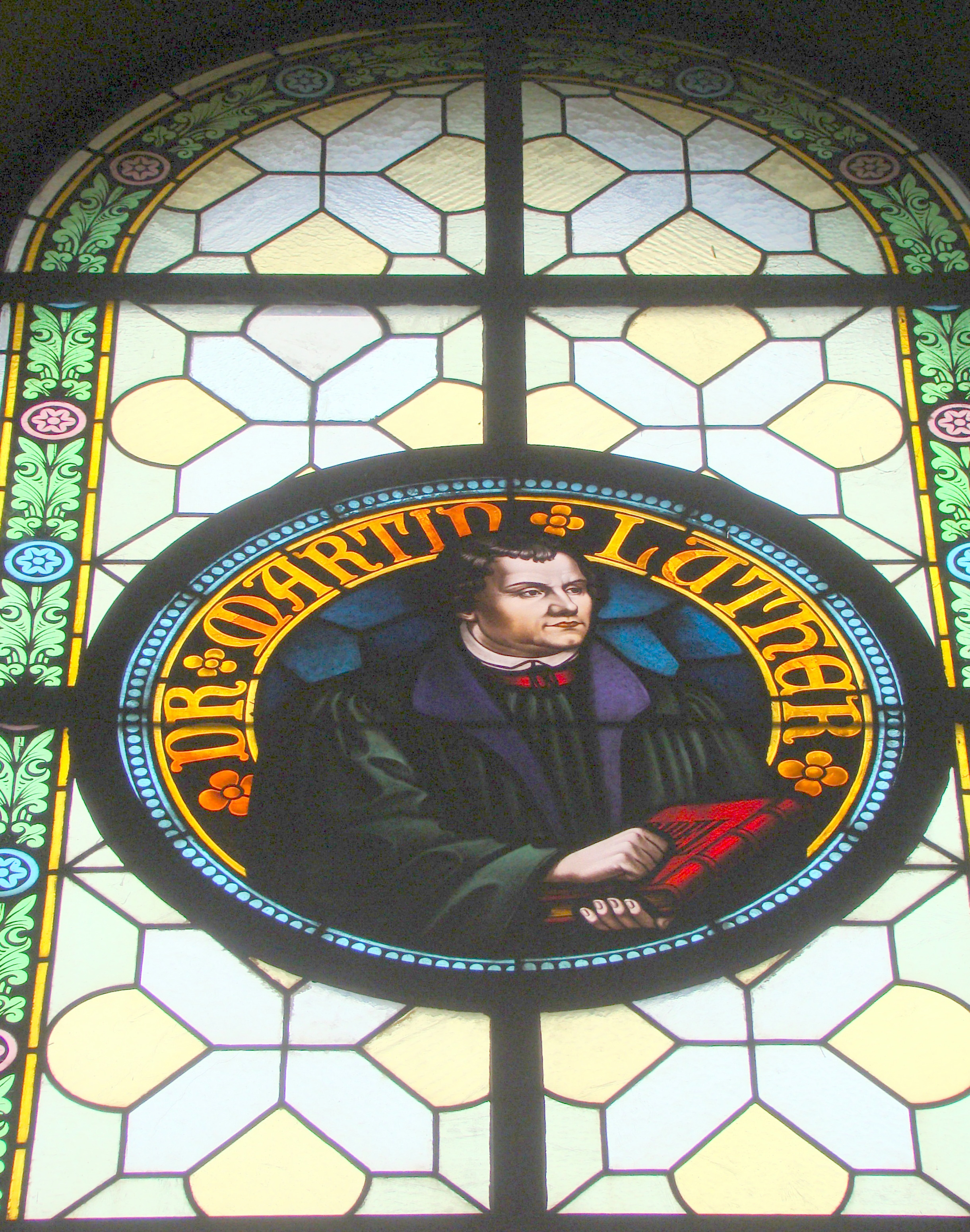 Fortified church in Cristian, Brașov County, Romania